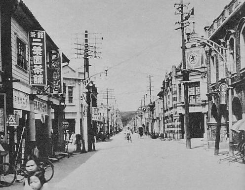 View of Kirun（Keelung）